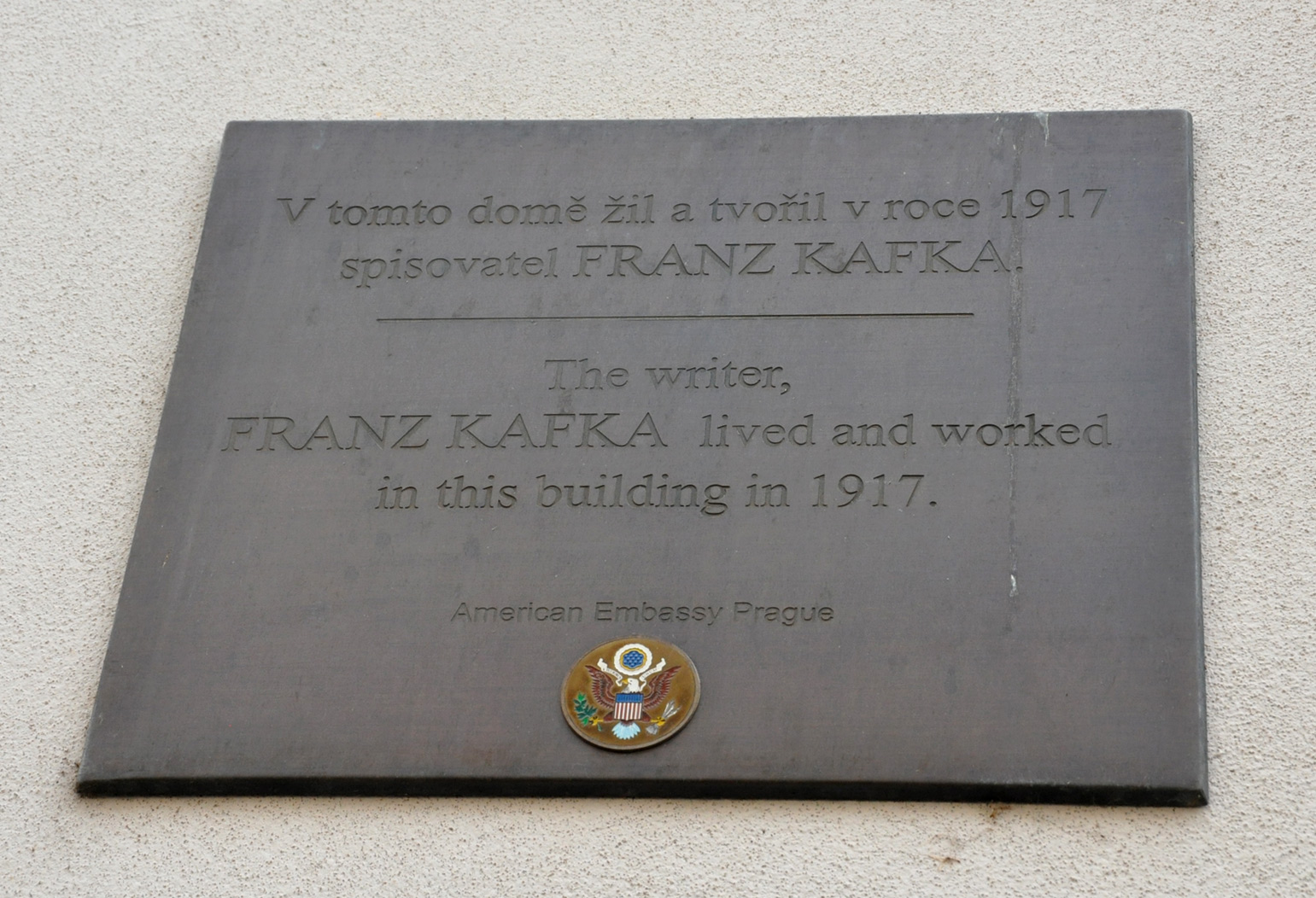 Franz Kafka plaque on the Schoenborn Palace in Prague, Tržiště 15.